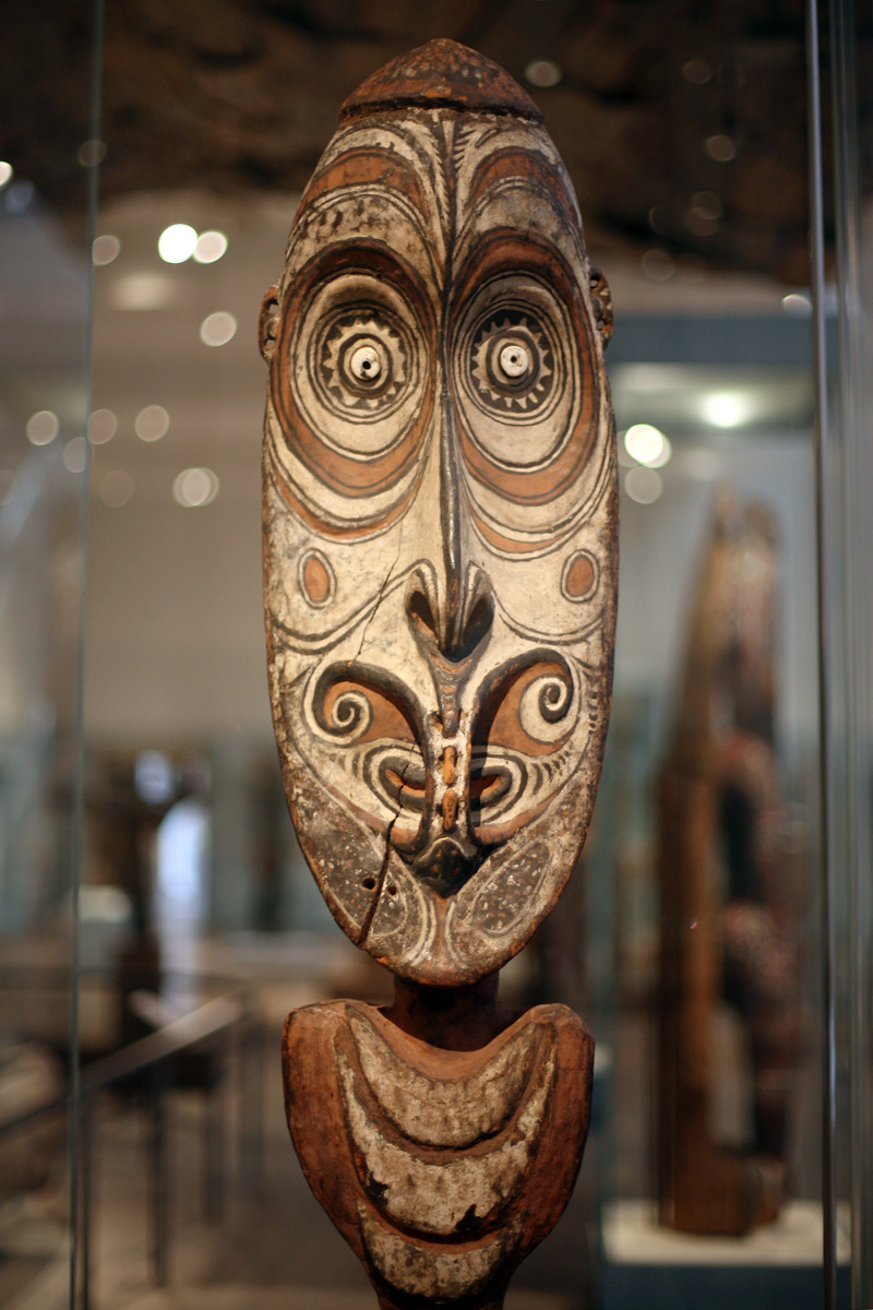 Ceremonial Fence Element, Late 19th–early 20th century Papua New Guinea, Iatmul, Kararau village Wood, paint, shell; H: 60 1/2 in. (153.7 cm) The Metropolitan Museum of Art, New York, The Michael C. Rockefeller Memorial Collection, Gift of Nelson A. Rockefeller, 1969 (1978.412.716) View at the Metropolitan Museum of Art website Wikipedia Loves Art at the Metropolitan Museum of Art This photo of item # 1978.412.716 at the Metropolitan Museum of Art was contributed under the team name "shooting_brooklyn" as part of the Wikipedia Loves Art project in February 2009. Metropolitan Museum of Art The original photograph on Flickr was taken by shooting brooklyn—please add a comment to the original Flickr page whenever a use has been made on Wikipedia or another project. Project galleries on Flickr: this institution, this team